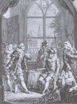 Engraved illustration to the play (Act 5, Scene 14) about the siege of Haarlem by Juliana Cornelia de Lannoy. The moment when Amelia, Kenau's daughter, mourns for her husband Wigbolt Ripperda (in coffin) while Kenau who is angry, scolds the Duke of Alba, who has entered the room to take Peter Hasselaer (seated) into custody.